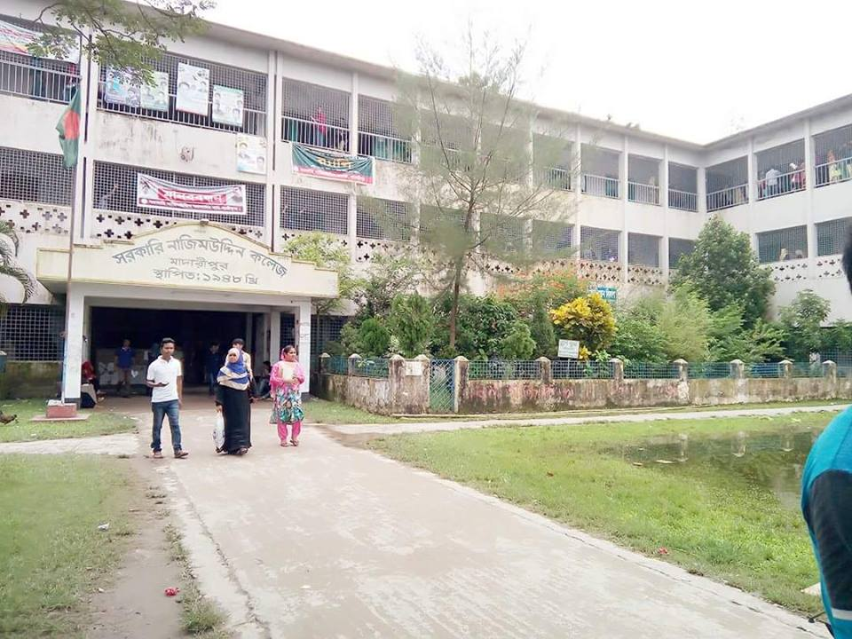 our colege campus